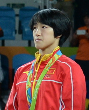 2016 Summer Olympics, Women's Freestyle Wrestling 48 kg awarding ceremony